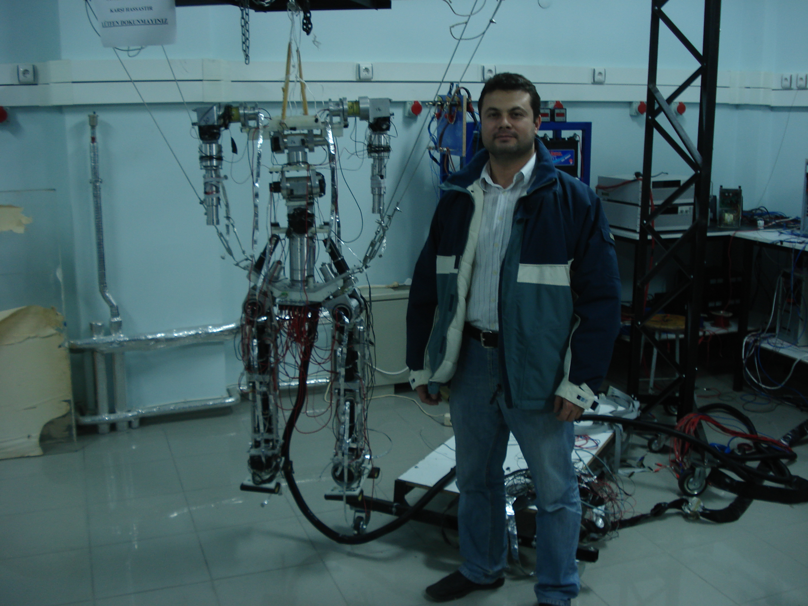 Roboturk and Dr Davut Akdas